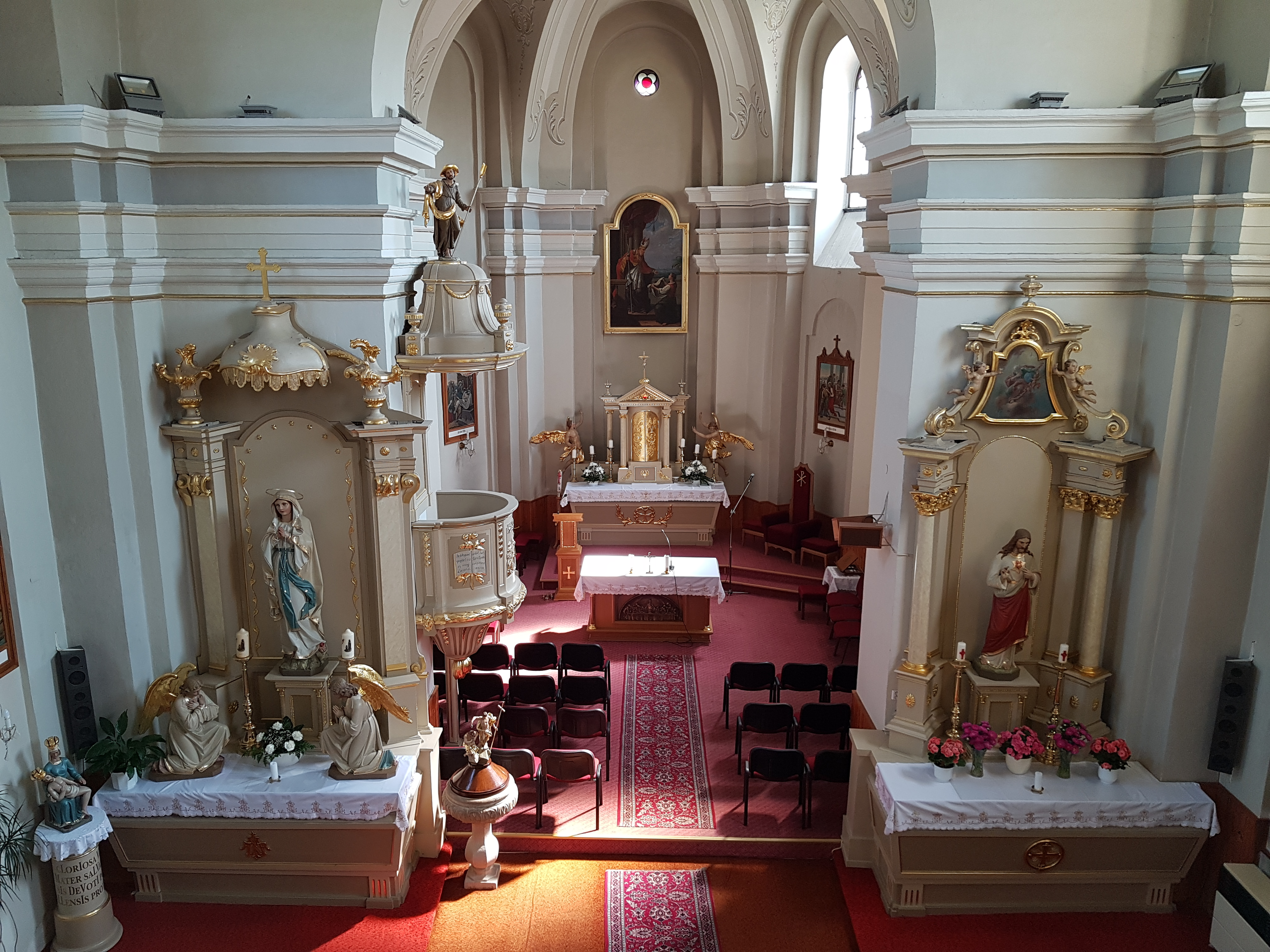 Interior of the church of St. Nicholas (Tomášov)